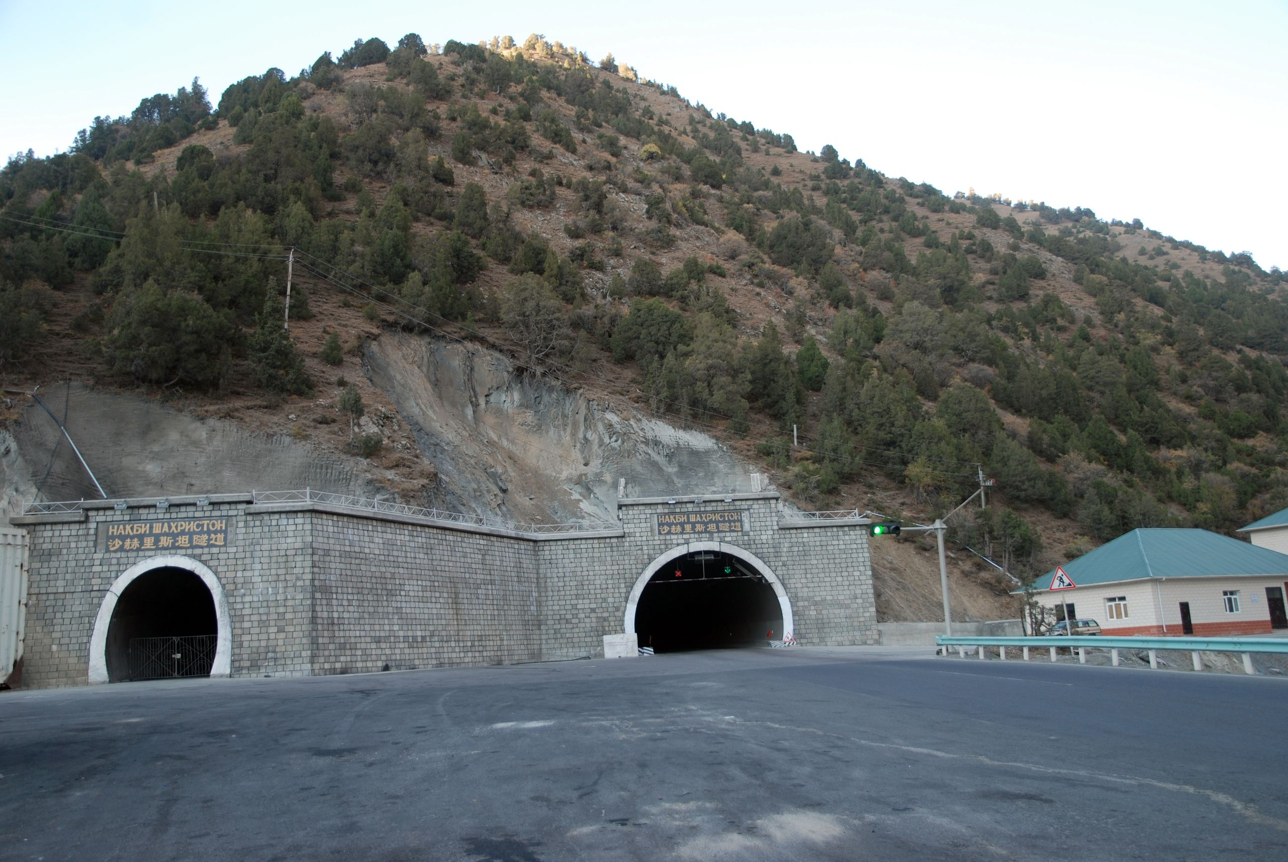 Shariston tunnel